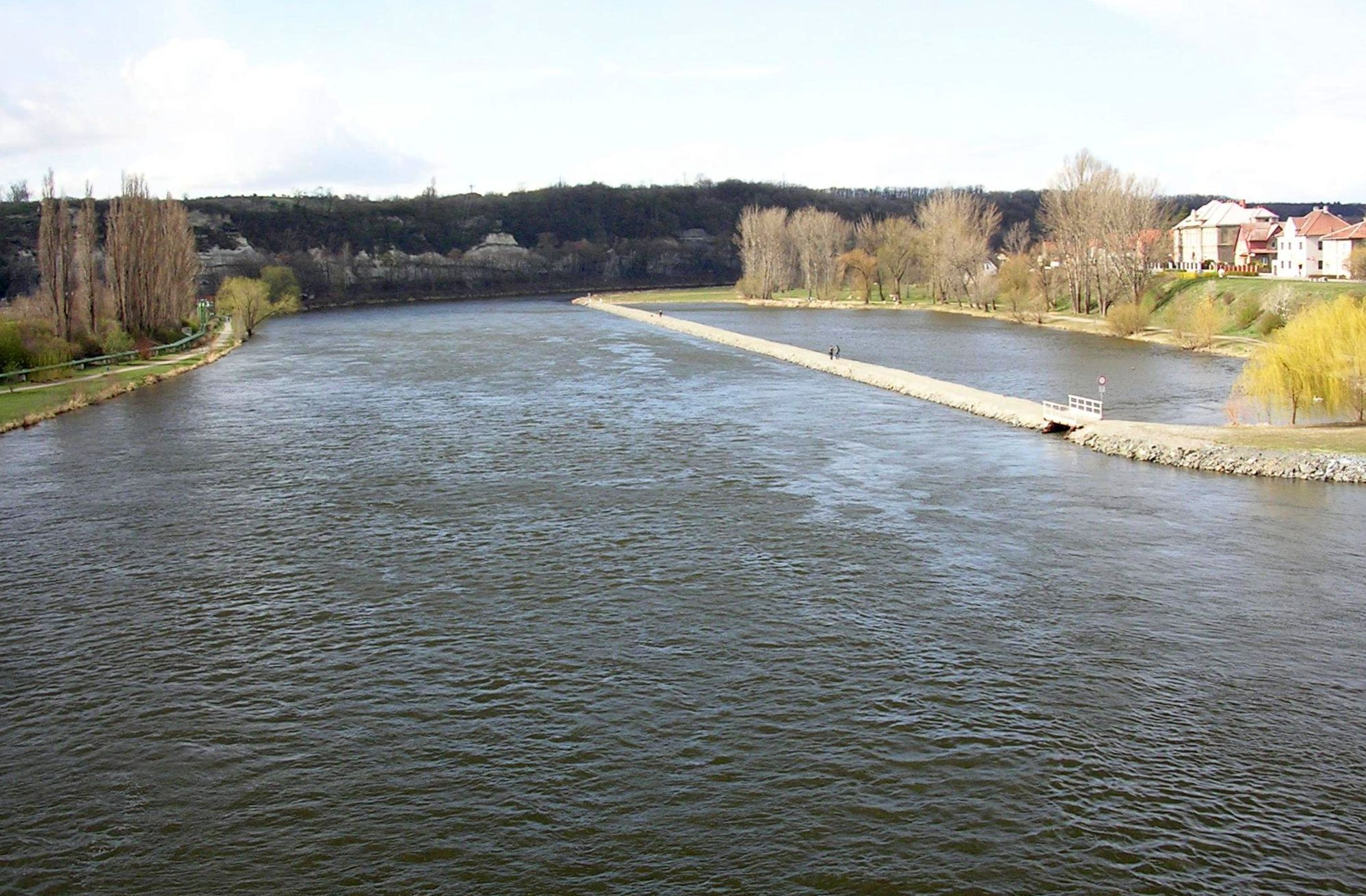 Kralupy nad Vltavou, the Czech Republic. Vltava River.